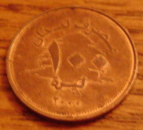 The obverse side of a 100 Livres coin from Lebanon dated 2000.